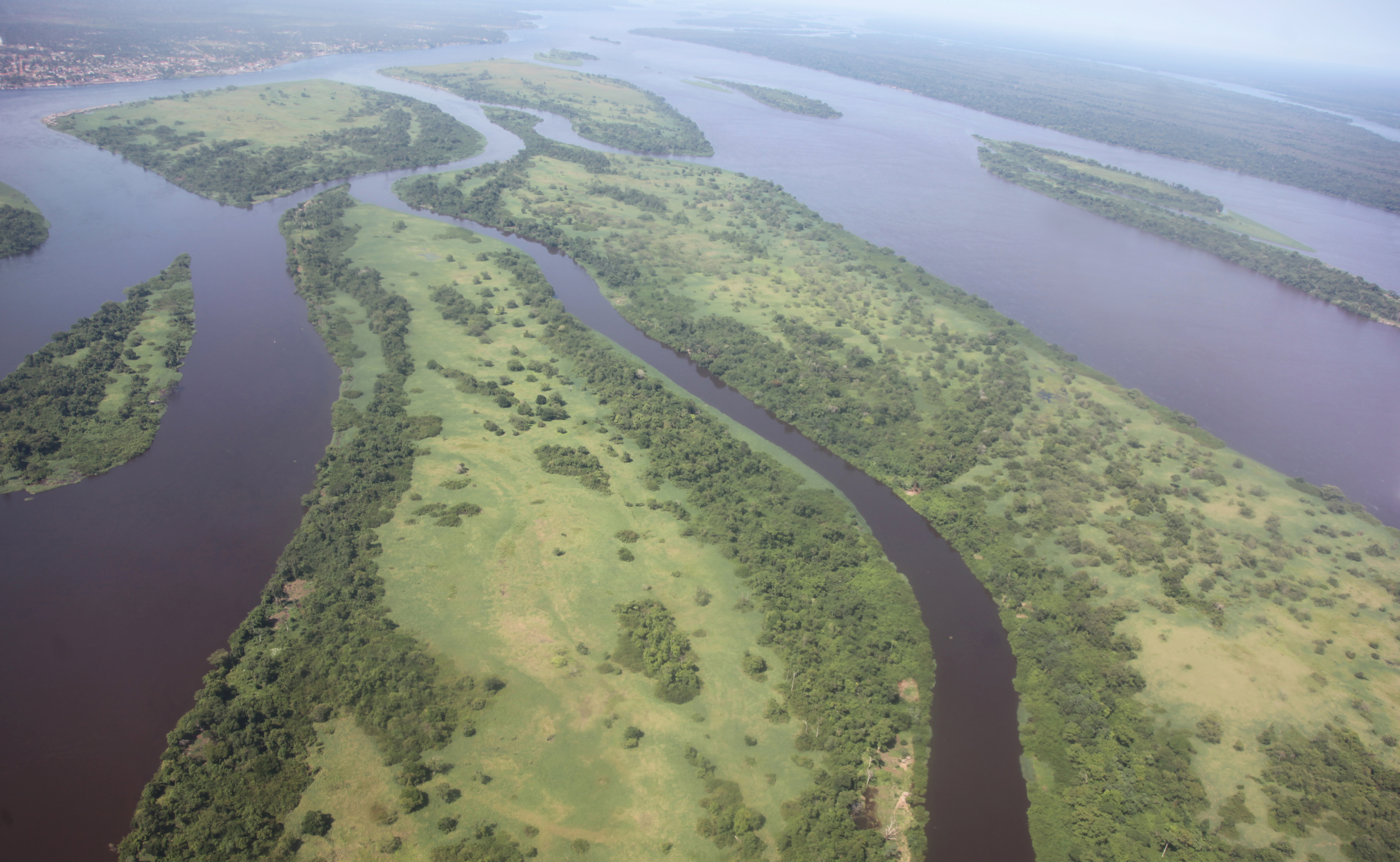 Aerial view of the Congo River near Kisangani, the capital of Orientale Province. Kisangani is an important commercial hub point for river and land transportation and a major marketing and distribution center for the north-eastern part of the country.